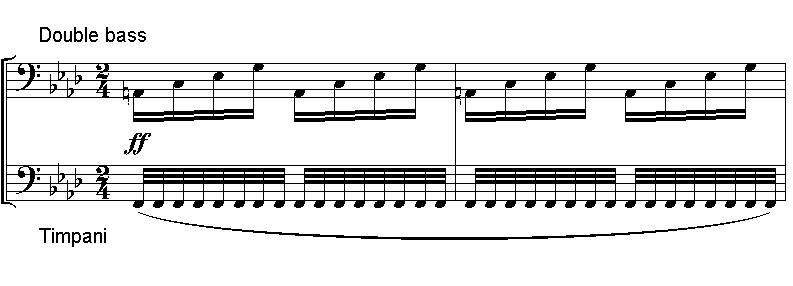 Symphony No. 6 in F major Op. 68 "Pastoral Symphony" - IV "Storm", Allegro (several bars)